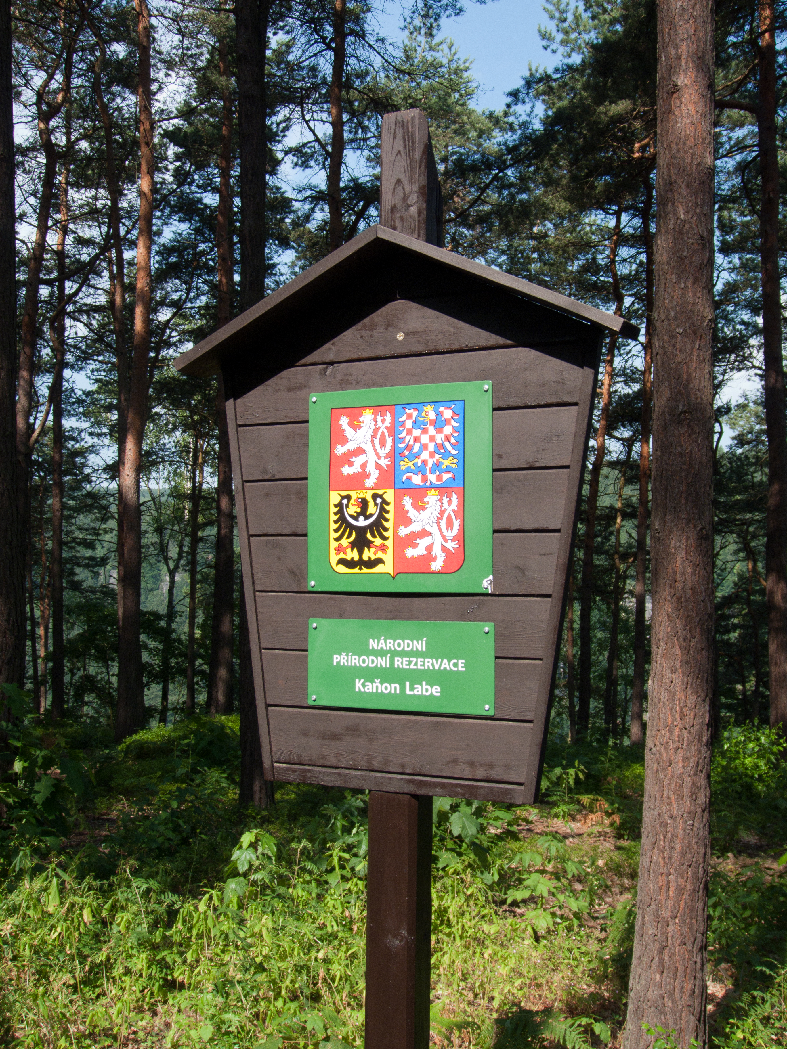 National natural reserve Elbe Canyon sign at the Belvedér observation point near the village of Labská Stráň, Děčín District, Czech Republic